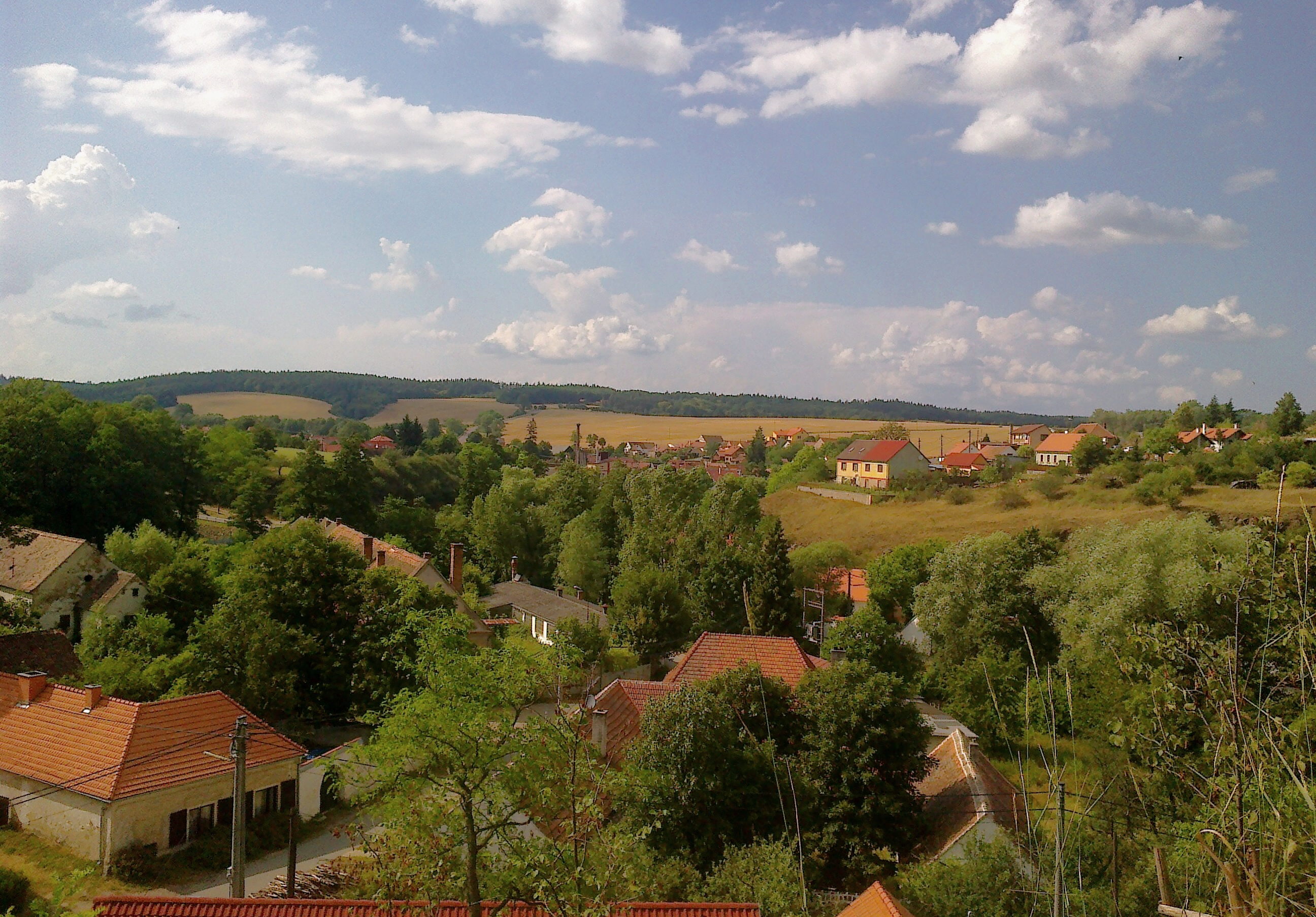 Střelice (okres Znojmo)